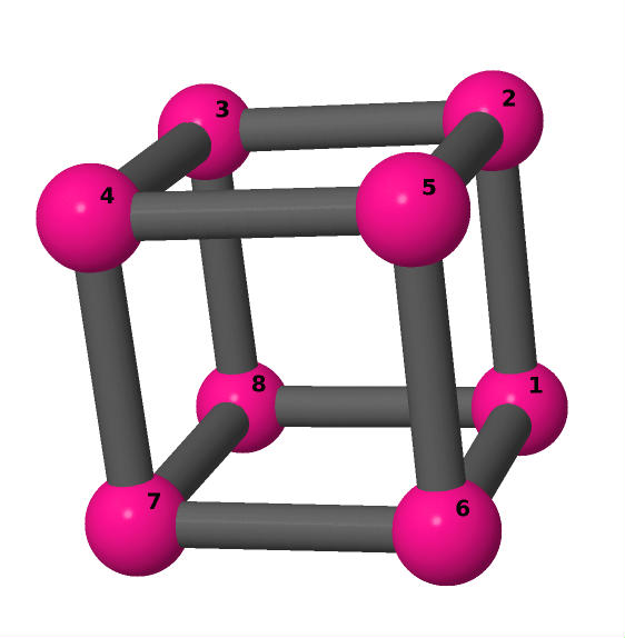 One of 5 simple cubic Hamiltonian graph with 8 vertices.